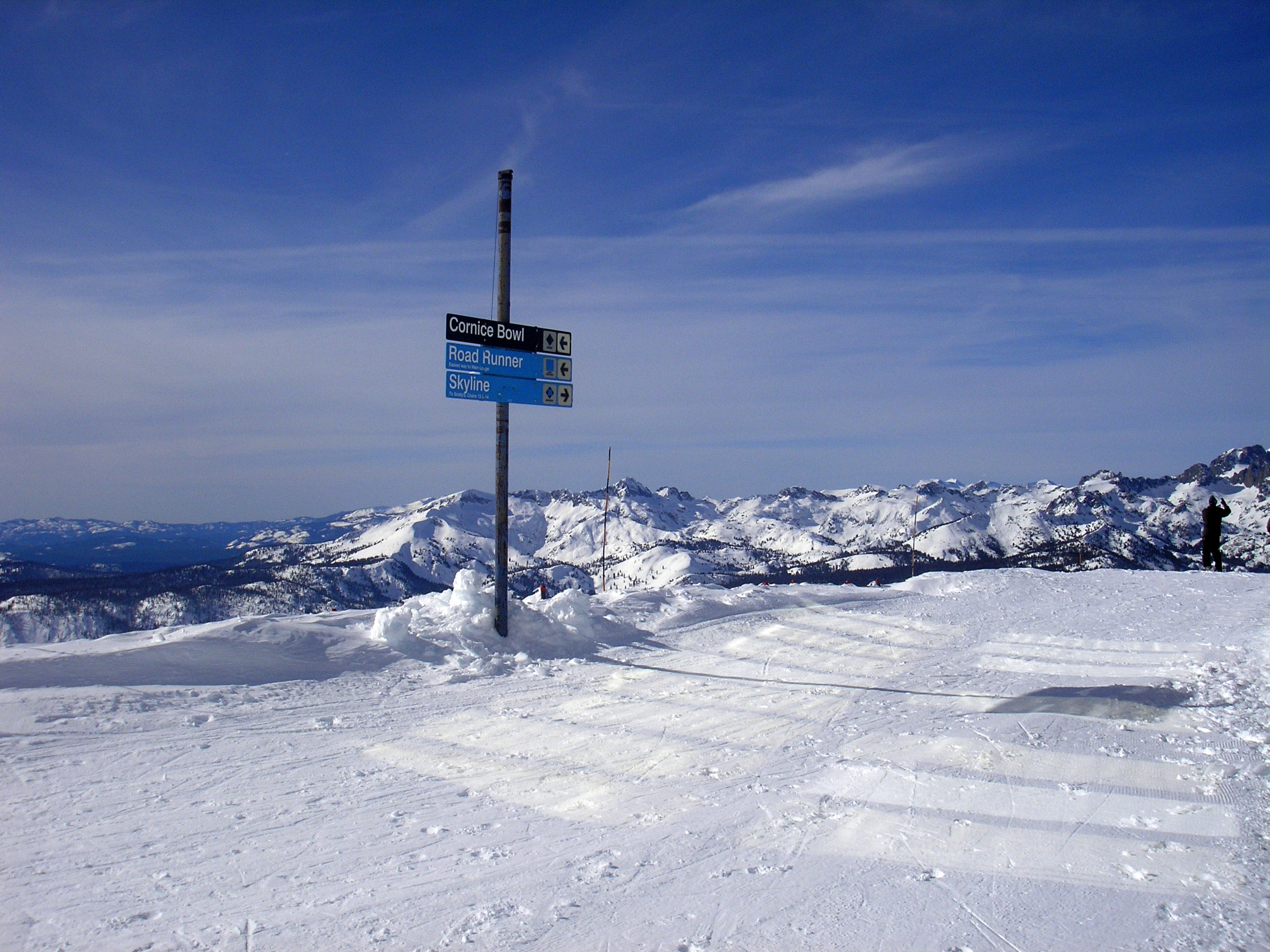 Cornice Bowl, Mammoth Mountain Ski Area, California. Seven feet of snow had fallen the night before which made for wonderful scenery.